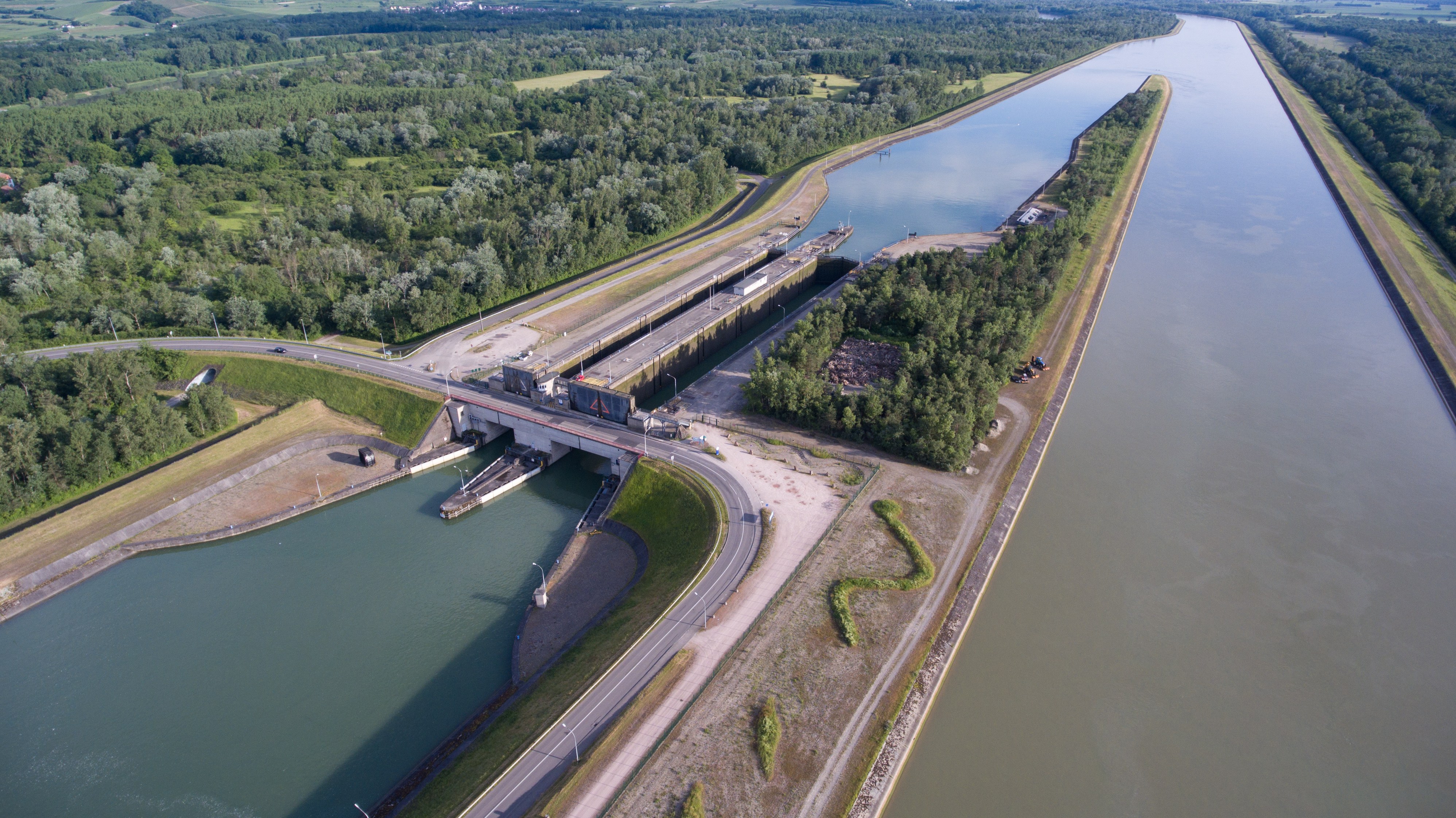 Aerial view lock Marckolsheim